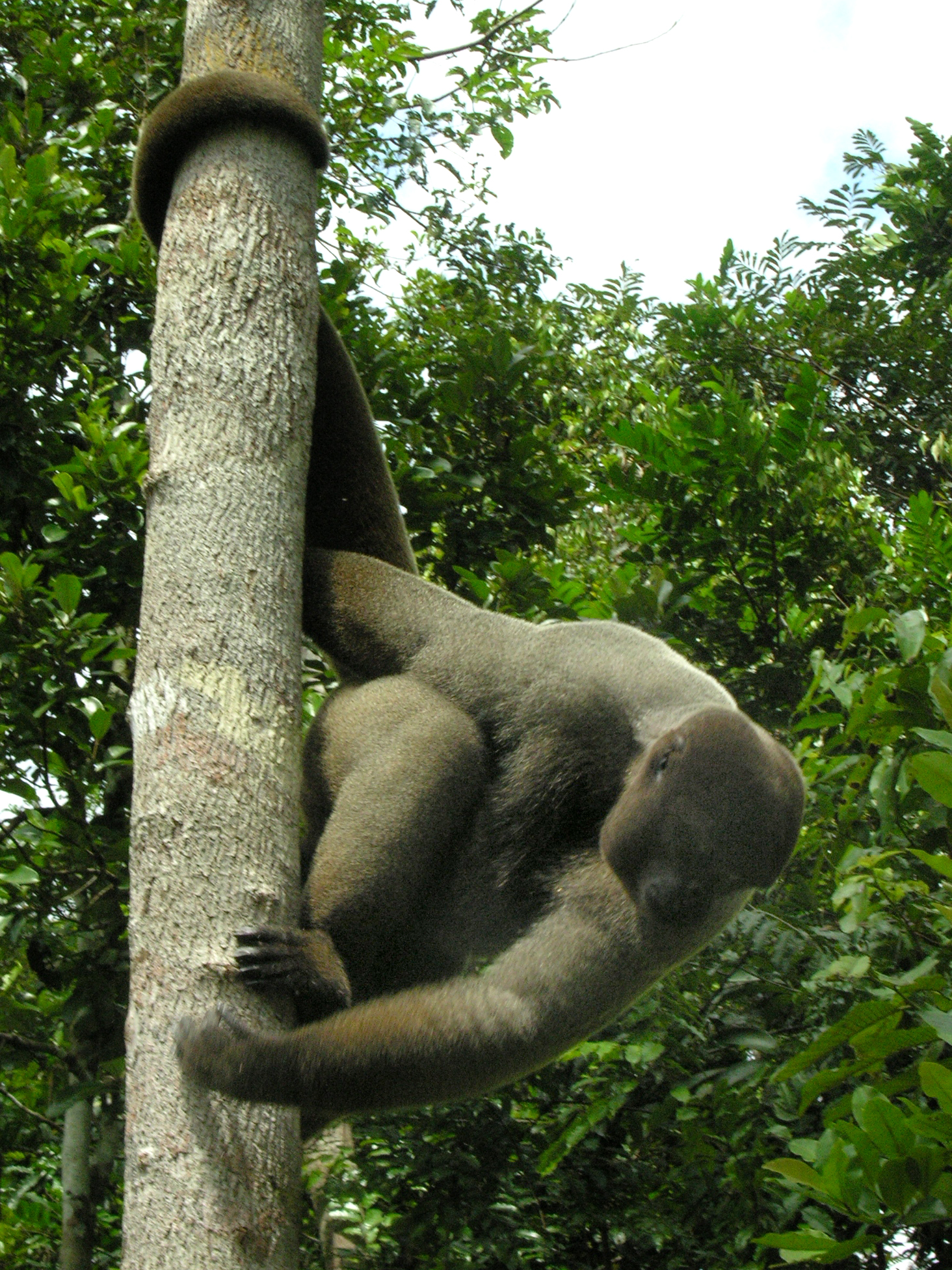 Brown Woolly Monkey, Taruma River, Brazil.